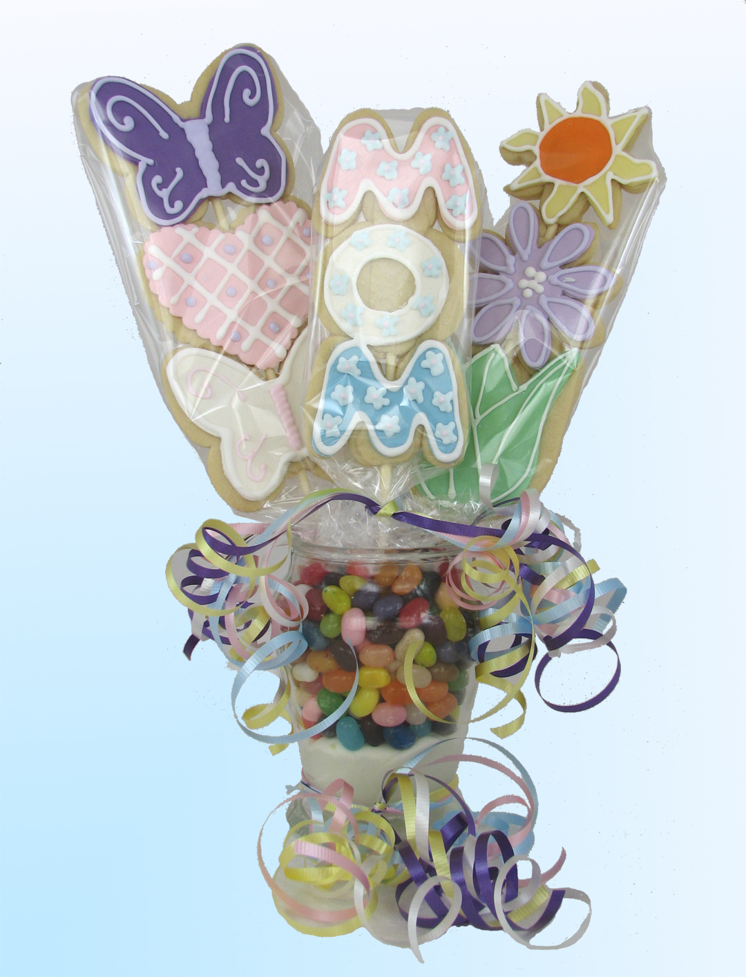 "Mom's the Word" cookie bouquet features cookie-k-bobs made of sugar cookie butterflies, flowers, a heart, and a special Mother's Day greeting. By Michael Prudhomme.